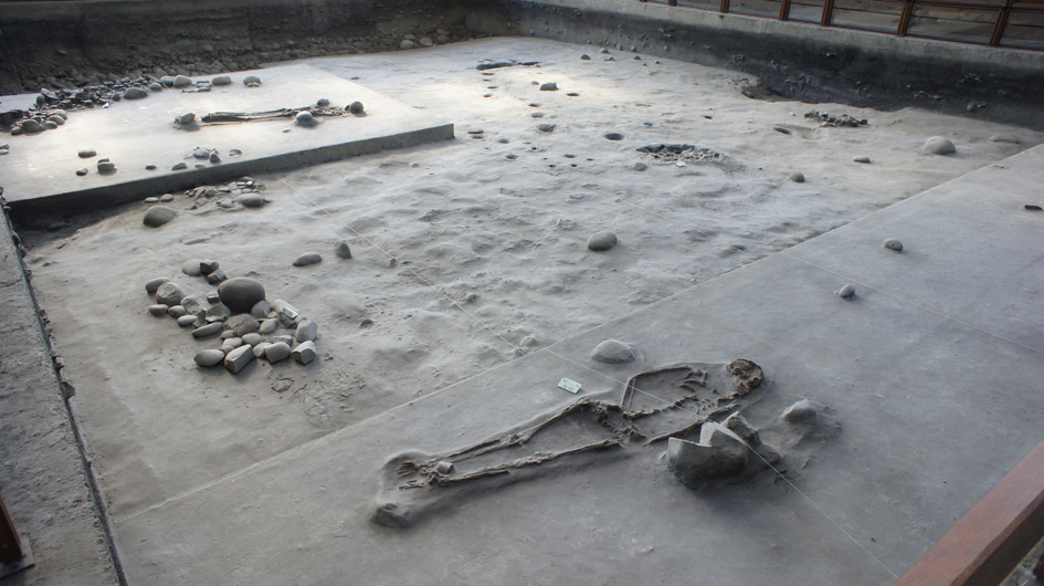 Hui-lai Monument Archaeology Park, Xitun District, Taichung City, Taiwan中文（台灣）: 惠來遺址公園。